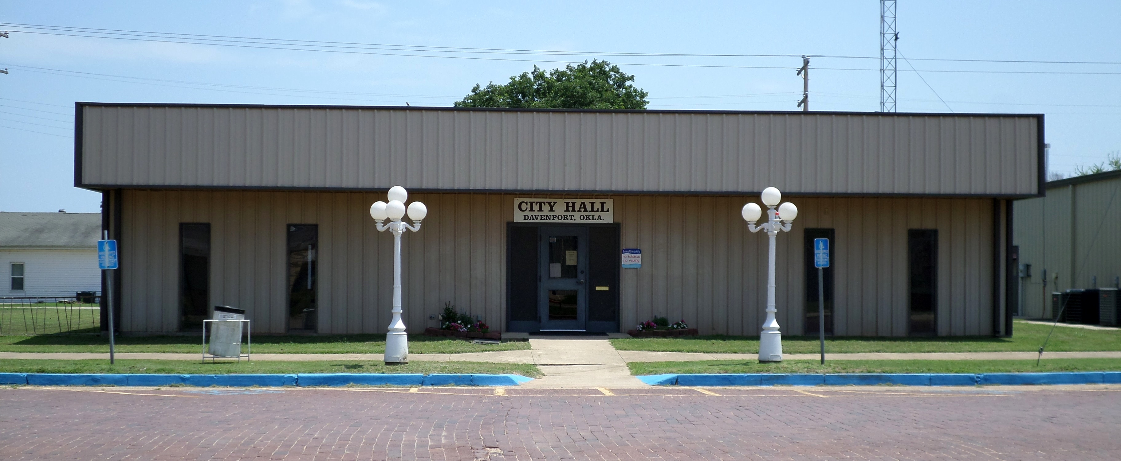 Davenport City Hall, located at 214 Broadway, Davenport, OK.